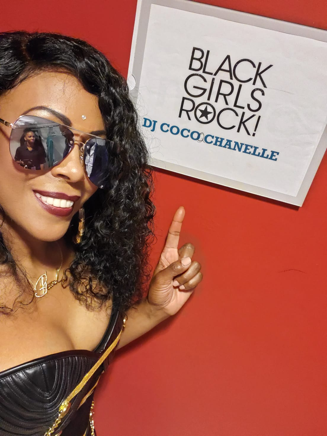 This picture was taken backstage at the Black Girls Rock before Cocoa's performance as the opening act for the event.